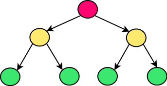 directed tree